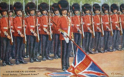 Painting : Coldstream Guards on parade.